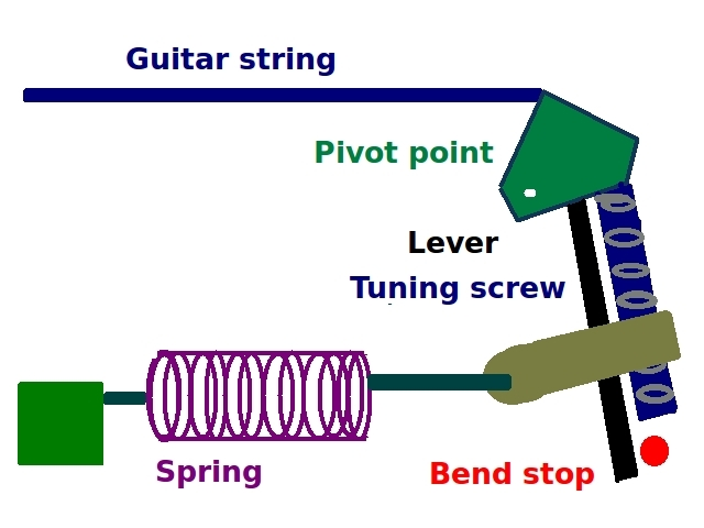 The patented EverTune mechanism keeps a string's tension constant by a mechanical device using a spring and a lever and means that guitars and other stringed instruments may not need to be periodically retuned.